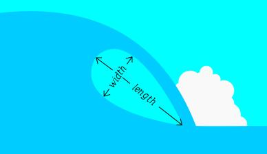 A model of a wave breaking.